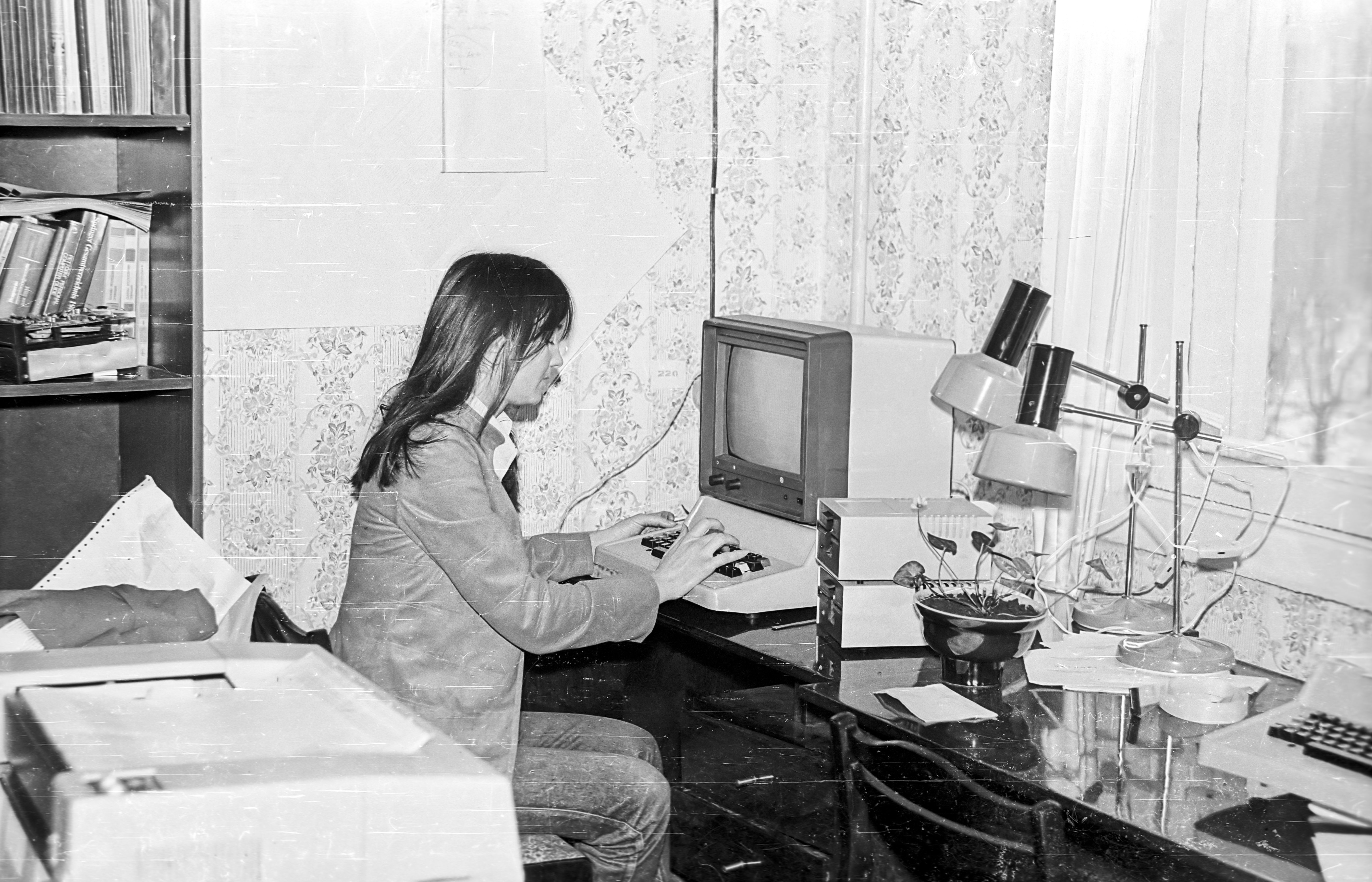 Lucy A. Gaidar, an engineer with the Laboratory of Computers and Operating systems, using a «Pravets 8» computer. As of 2008, Lucy works in PSI RAS. — Working room for research staff on the second floor of one 1st building at Botik place. — Branch of the Institute of Cybernetics of the Academy of Sciences of the USSR, since August 1986 Program Systems Institute of the Academy of Sciences of the USSR. Veskovo village near Pereslavl.